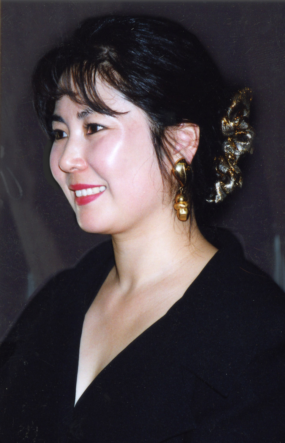 Jia Lu in 2008